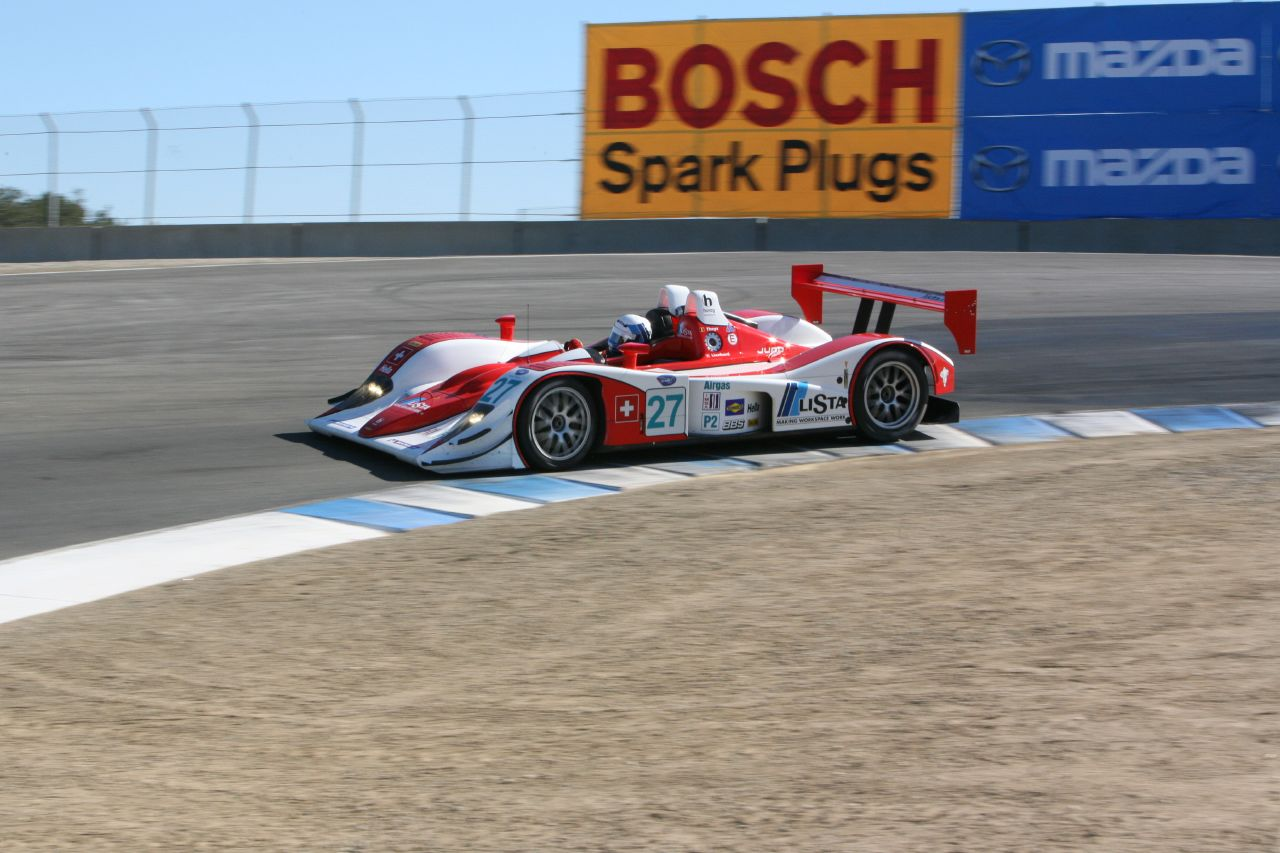 Horag Racing's Lola B05/40-Judd